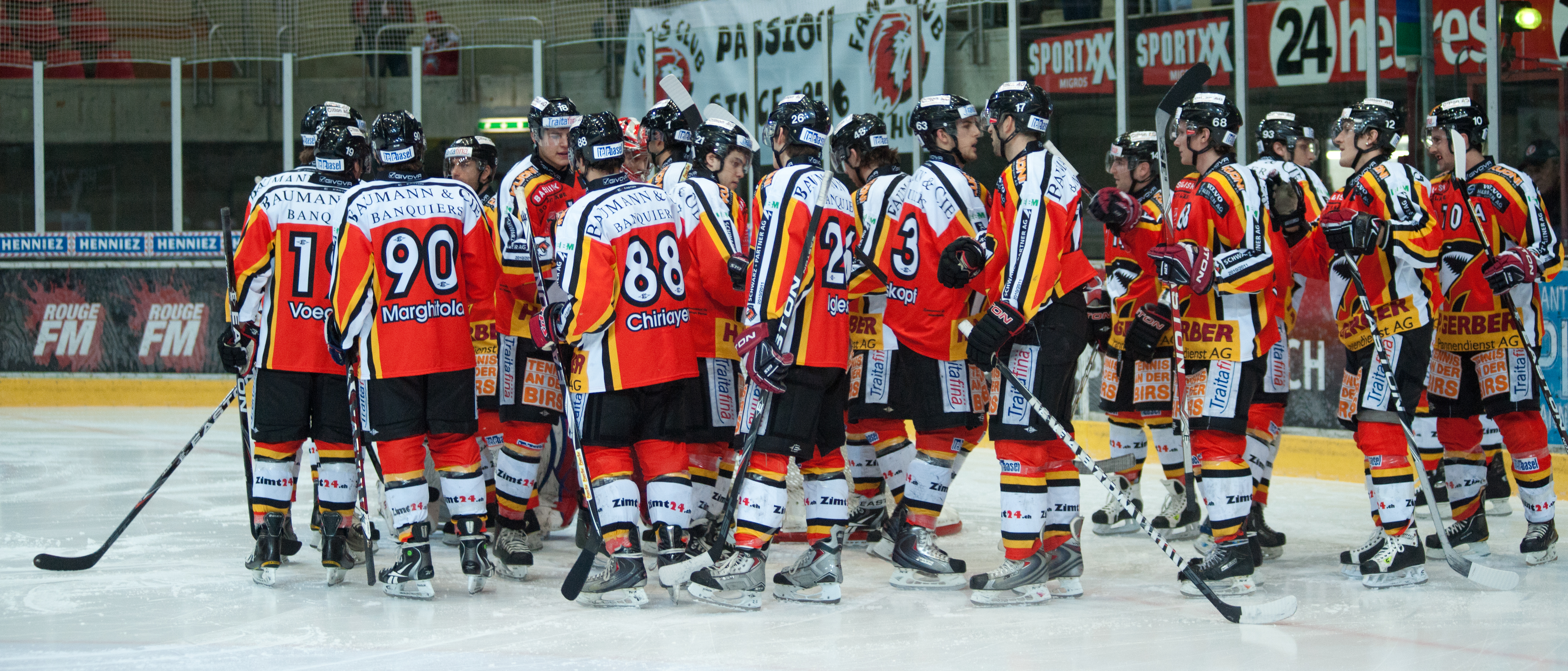 The making of this document was supported by Wikimedia CH. (Submit your project!) For all the files concerned, please see the category Supported by Wikimedia CH.